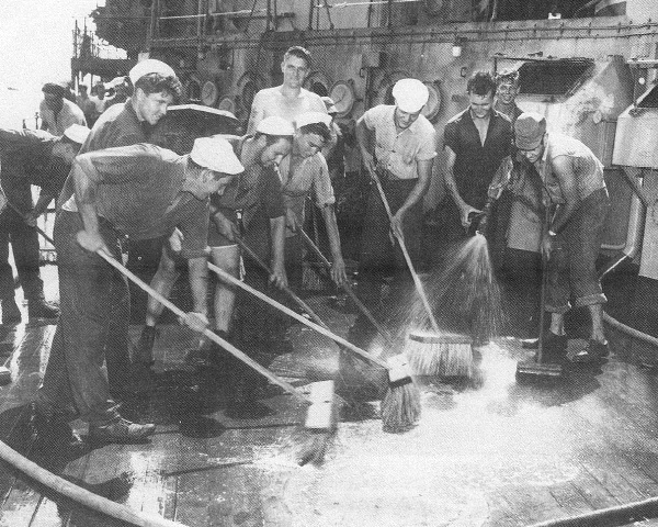 The Baker shot of Operation Crossroads, Bikini Atoll, July 25, 1946. Sailors scrub down the German cruiser Prinz Eugen, in a futile attempt to remove radioactive contamination.